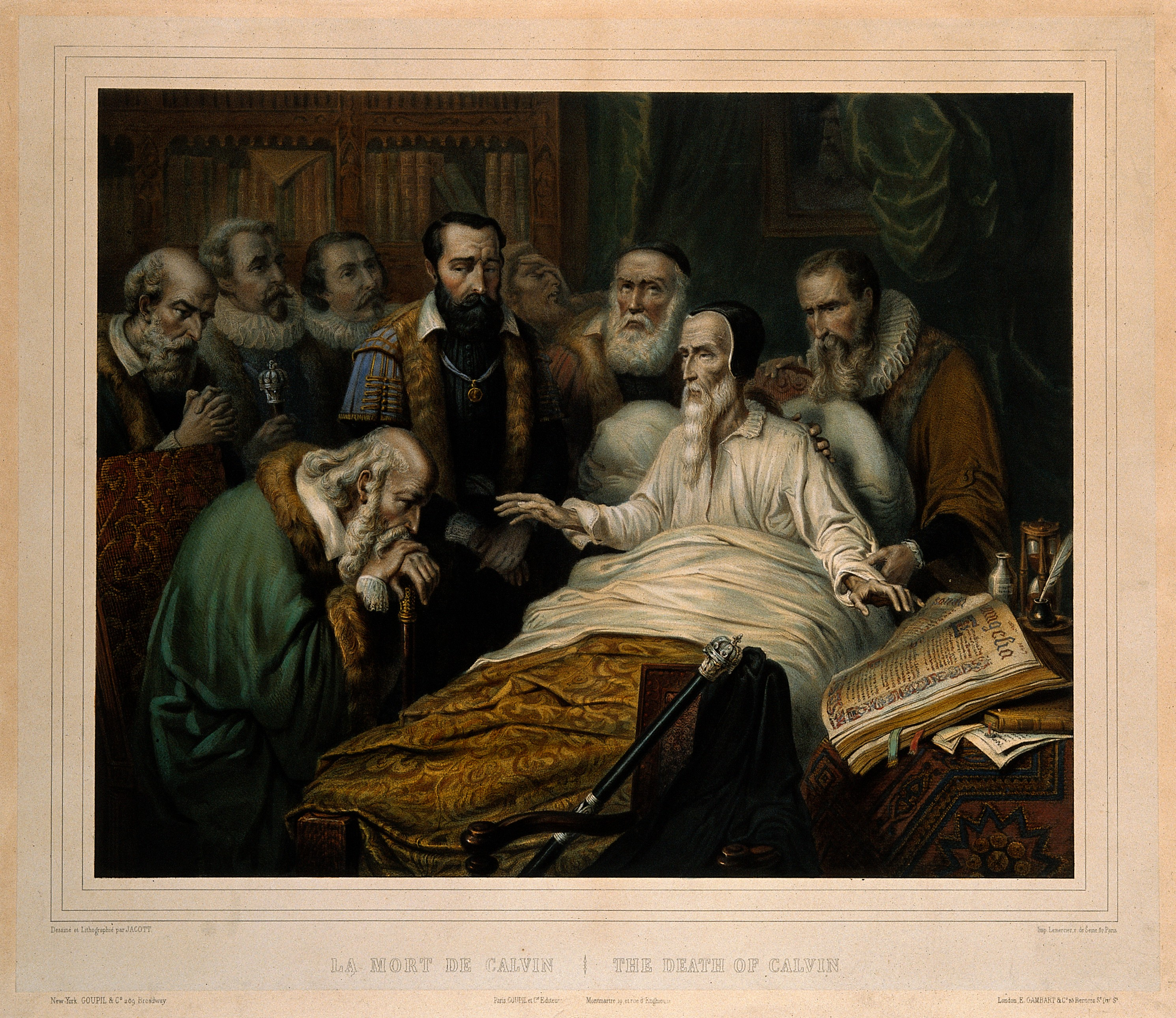 John Calvin on his deathbed, with members of the Church in attendance. Protestant reformer in Geneva. Lithograph by W.L. Walton after Oakley, c.1865. Iconographic Collections Keywords: Jean Calvin